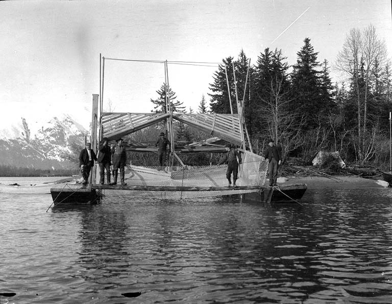 From John Cobb field notebook: Fish wheel on the Taku River, Alaska. May 5, 1908 Subjects (LCTGM): Fishing industry--Alaska; Fishing industry--Taku River; Fishermen--Alaska Subjects (LCSH): Fishwheels--Alaska; Fishwheels--Taku River; Fisheries--Alaska; Fisheries--Taku River; Taku River (B.C. and Alaska)